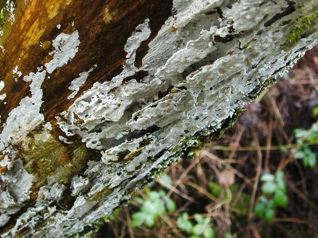 Elder Whitewash (Hyphodontia sambuci). Alongside the cycle route, between 1068180 and 1157989, some Elder Whitewash was visible, in the form of the white crust that is shown here. This is a common species, and it can be found all year round. Here, it was growing on the kind of wood that is indicated by its common name, but it does, especially in warmer climates, occur on other hosts. 933080 is another species that favours elder (Sambucus) as a host, and some fruiting bodies of that species were growing on the same piece of wood. [Many online photographs of this species show a far smoother surface, but according to "Fungi of Switzerland – Vol 2" (Breitenbach/Kränzlin), in which this species is listed under the synonym Lyomyces sambuci, the surface is "tuberculate to slightly verrucose", i.e., it has small bumps or warts. In addition, when the fungus is dry (which was not the case in my photo), its surface is often fissured. (at Index Fungorum) for the current name, and for synonyms.]